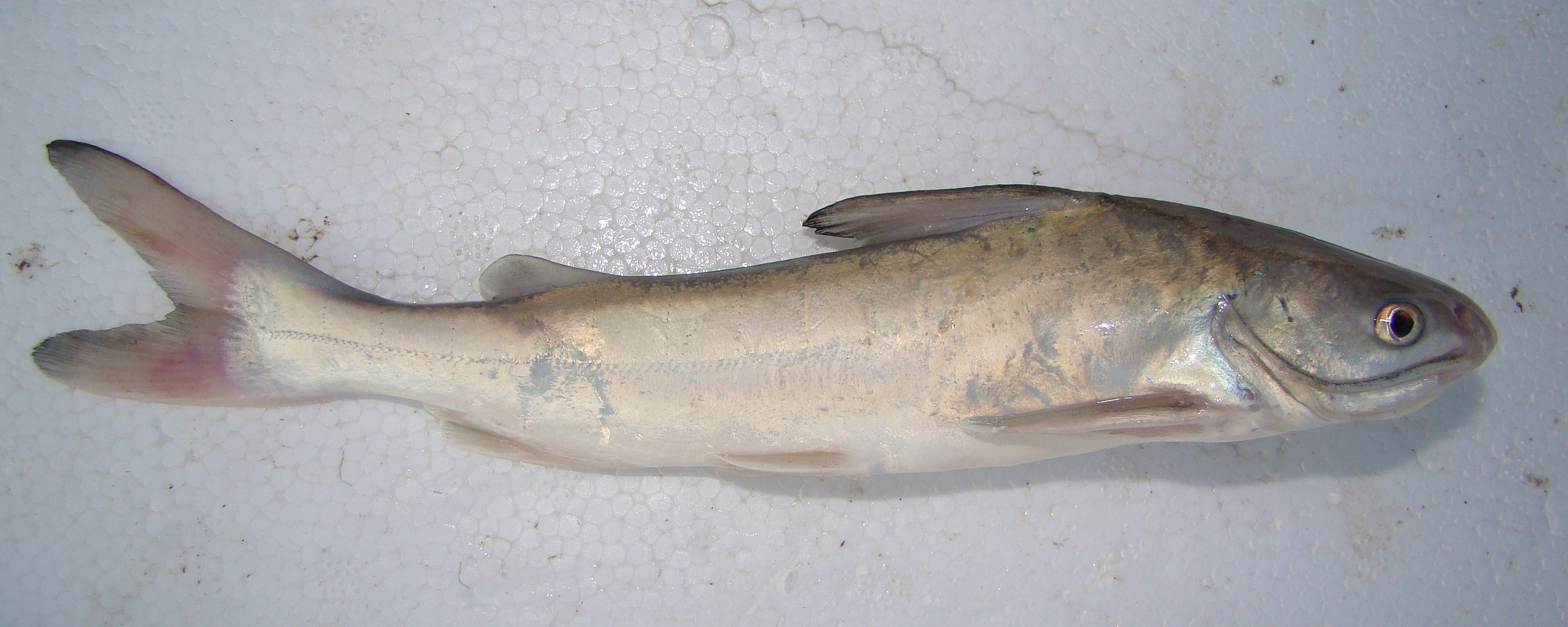 Guri sea catfish, Genidens genidens from Atlantic Ocean coast, Rio Grande do Sul, Brazil, photographed on December 2008. FishBase